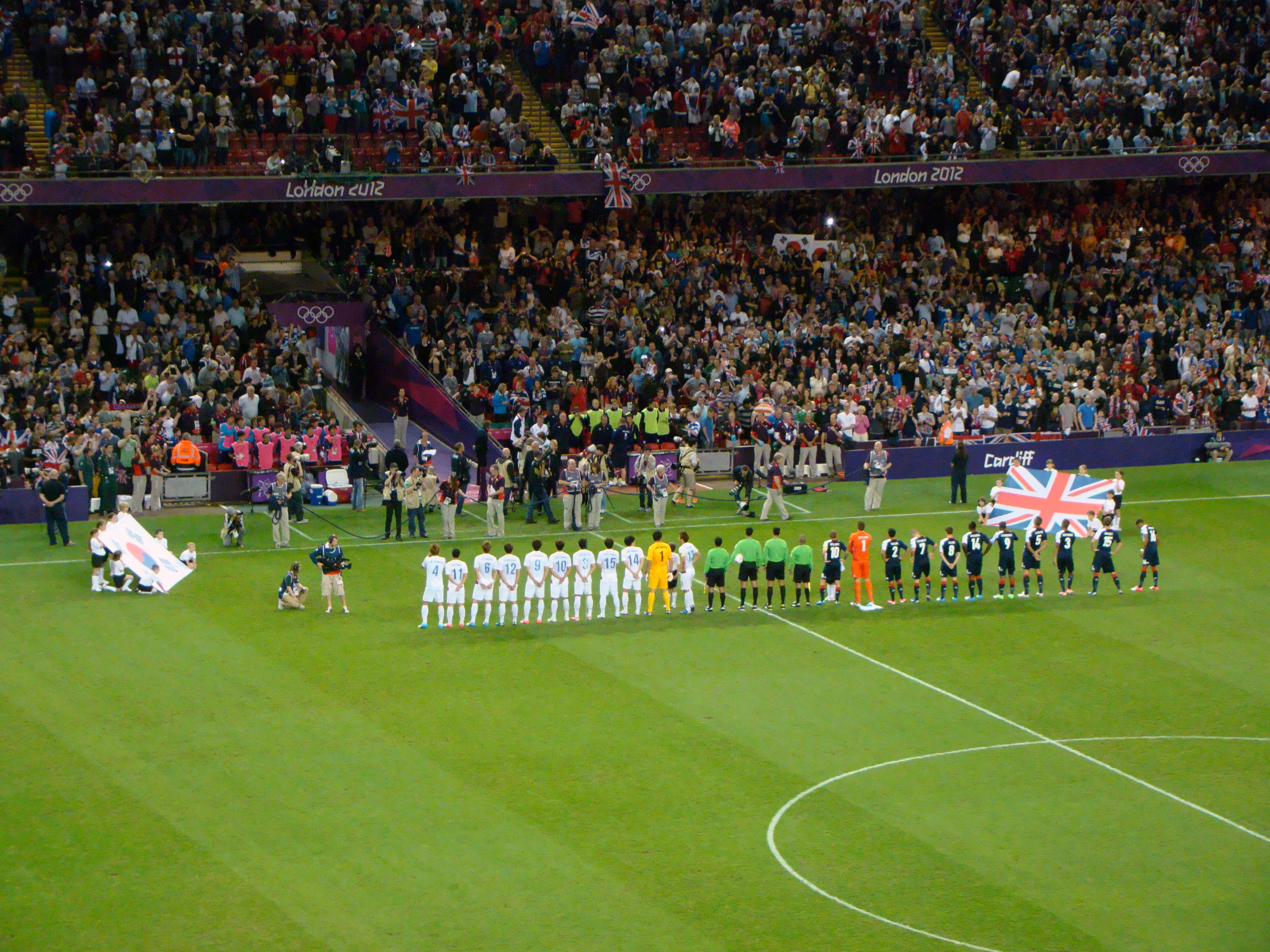 04/08/12 Great Britain v South Korea, Olympic Football, Millennium Stadium, Cardiff, Wales